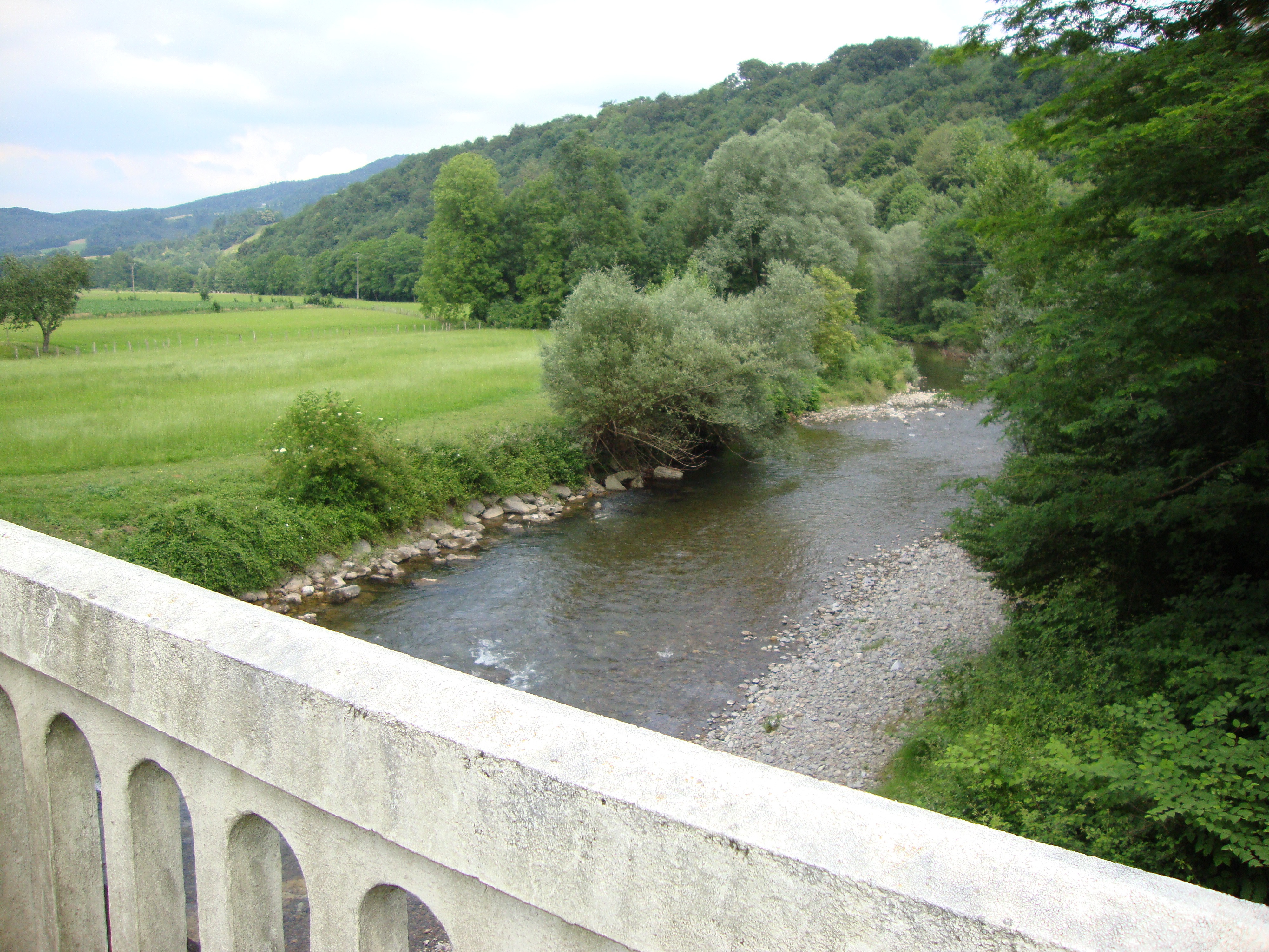 Aramits (Pyr-Atl, Fr) Vert river at location Serreuille